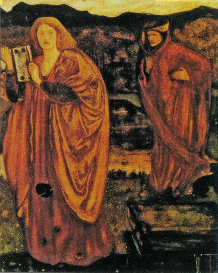 Illustration from U. Waldo Cutler's Stories of King Arthur and His Knights.